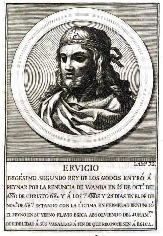 A poster of ERVIGIO, Visigoth king, n° 32 in the chronological order of the book digitalized by Google since the bookshop in the University of Oxford.